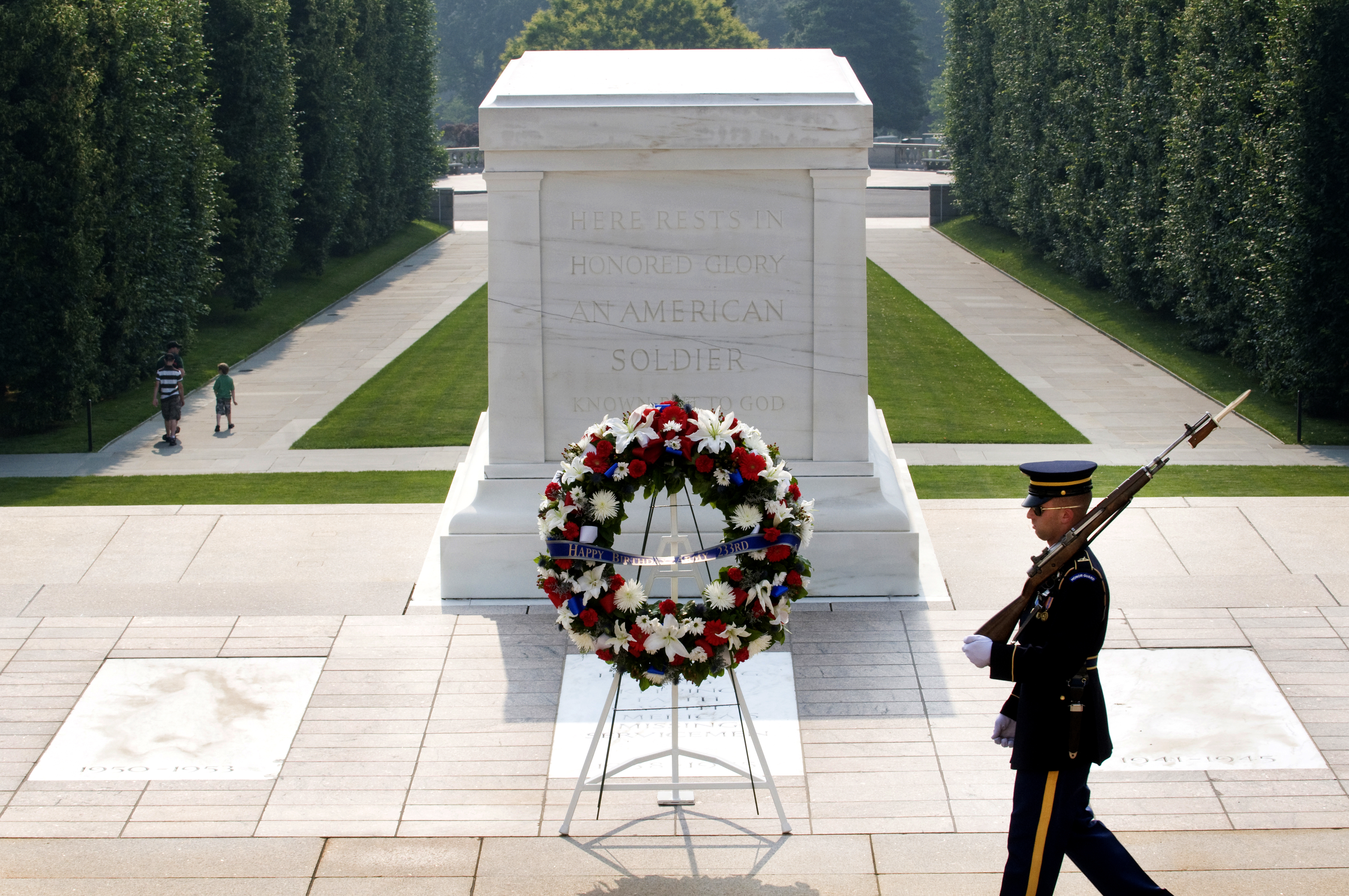 A soldier assigned to the Army's 3rd U.S. Infantry Regiment, "The Old Guard," guards the Tomb of the Unknowns after the U.S. Army's senior leadership laid a wreath in tribute to the Army's 233rd birthday at Arlington National Cemetery, Va., June 14, 2008.